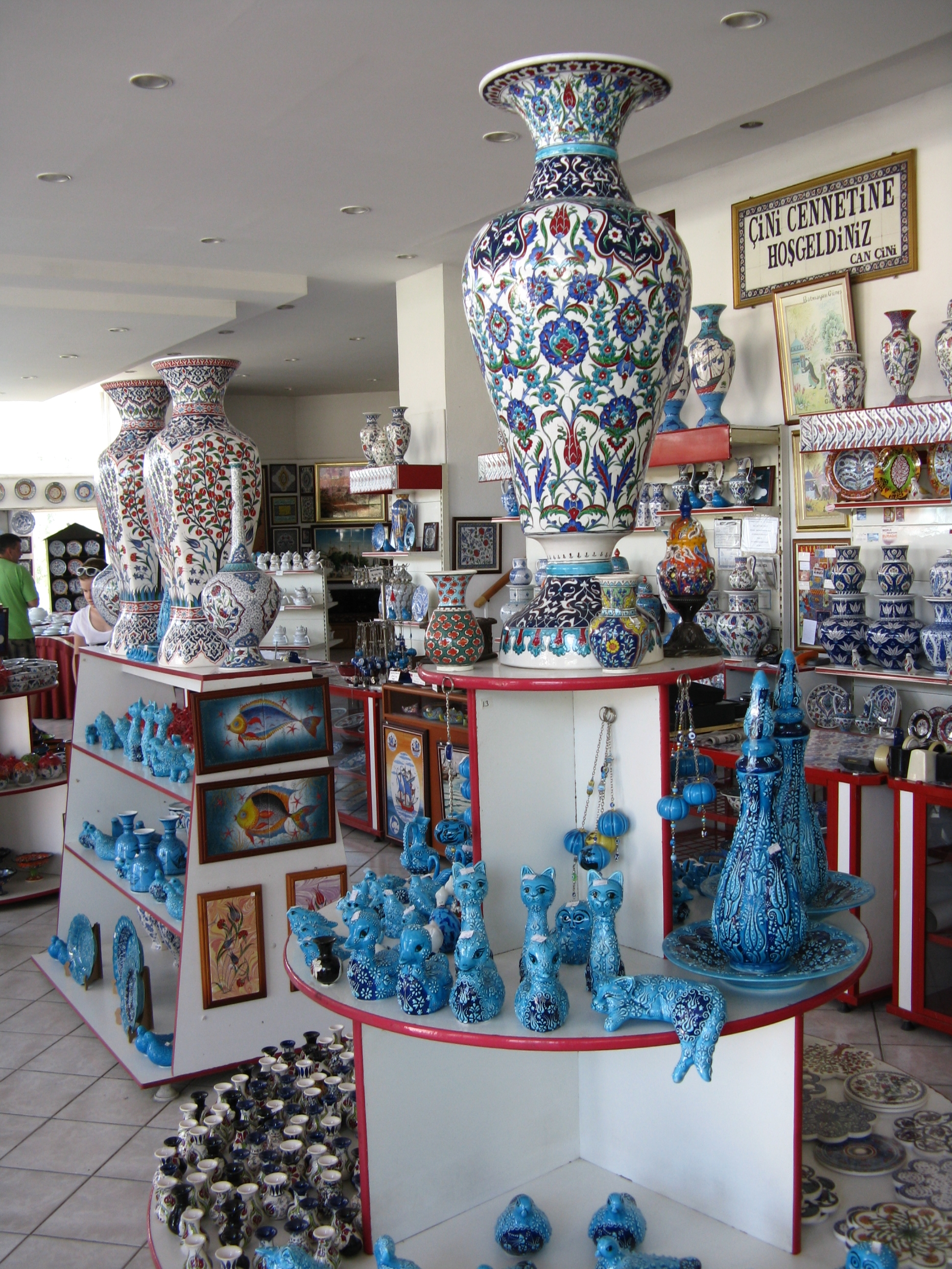 Kütahya porcelain shop